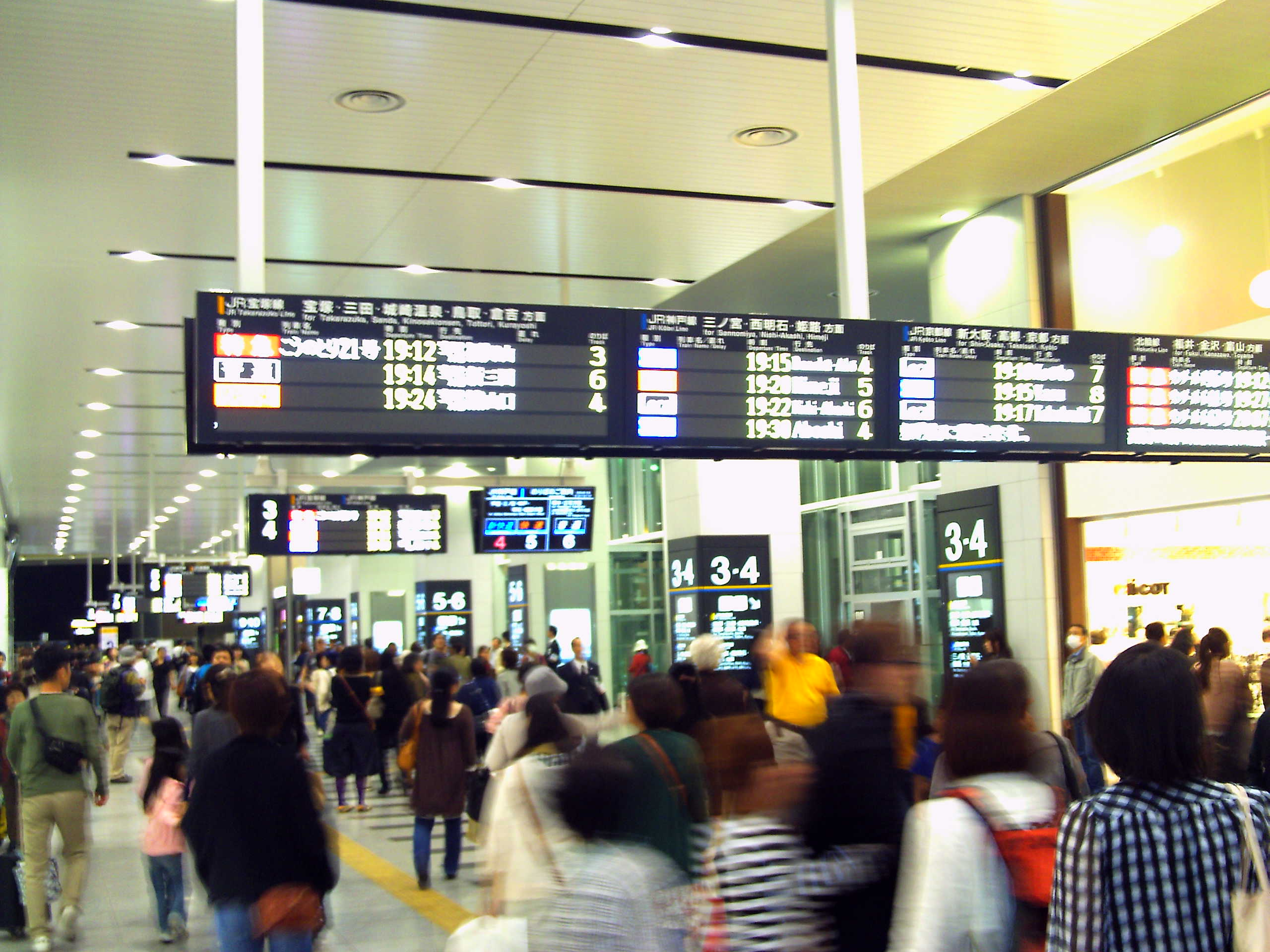 Grand Opening at Osaka_Station_City_2011-05